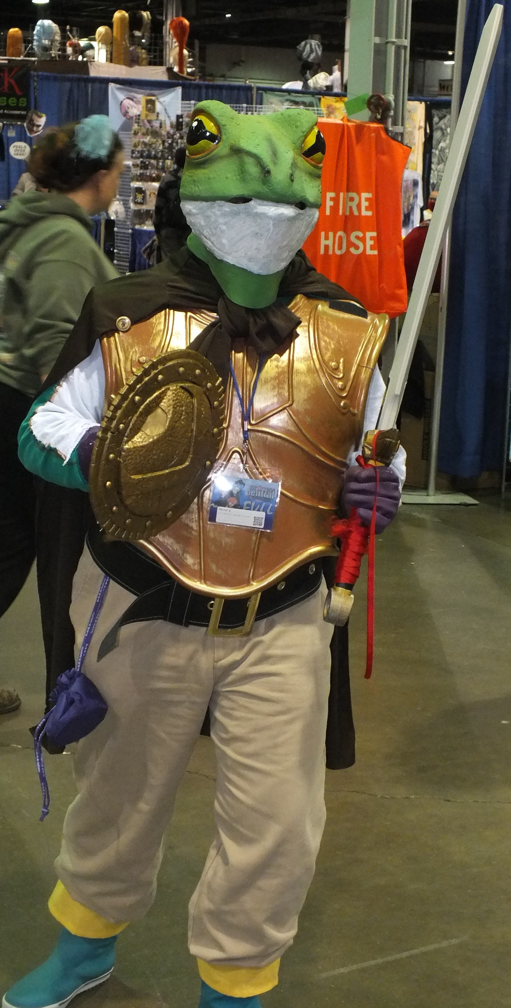 Cosplay of Frog (Glenn) from Chrono Trigger at Anime Central 2011.